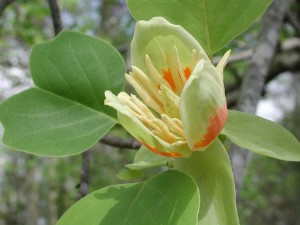 Tuliptree blossom